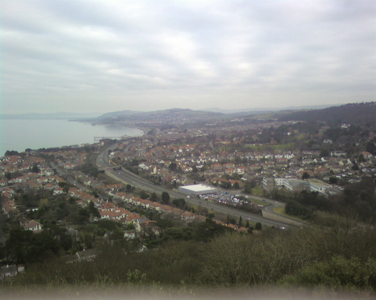 View of Colwyn Bay from Bryn Euryn.